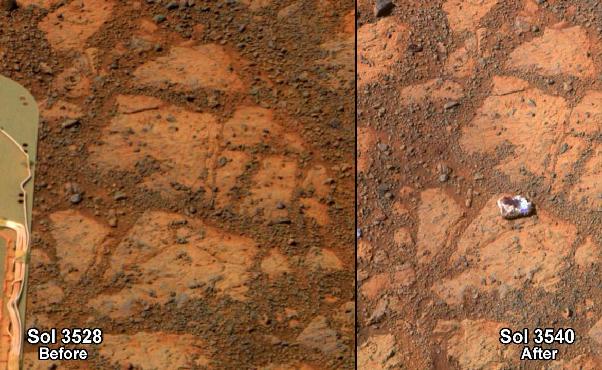 PIA17761: Rock That Appeared in Front of Opportunity on "Murray Ridge" This before-and-after pair of images of the same patch of ground in front of NASA's Mars Exploration Rover Opportunity 13 days apart documents the arrival of a bright rock onto the scene. The rover had completed a short drive just before taking the second image, and one of its wheels likely knocked the rock -- dubbed "Pinnacle Island" -- to this position. The rock is about the size of a doughnut. The images are from Opportunity's panoramic camera (Pancam). The one on the left is from 3,528th Martian day, or sol, of the rover's work on Mars (Dec. 26, 2013). The one on the right, with the newly arrived rock, is from Sol 3540 (Jan. 8, 2014). Much of the rock is bright-toned, nearly white. A portion is deep red in color. Pinnacle Island may have been flipped upside down when a wheel dislodged it, providing an unusual circumstance for examining the underside of a Martian rock. The site is on "Murray Ridge," a section of the rim of Endeavour Crater where Opportunity is working on north-facing slopes during the rover's sixth Martian winter.